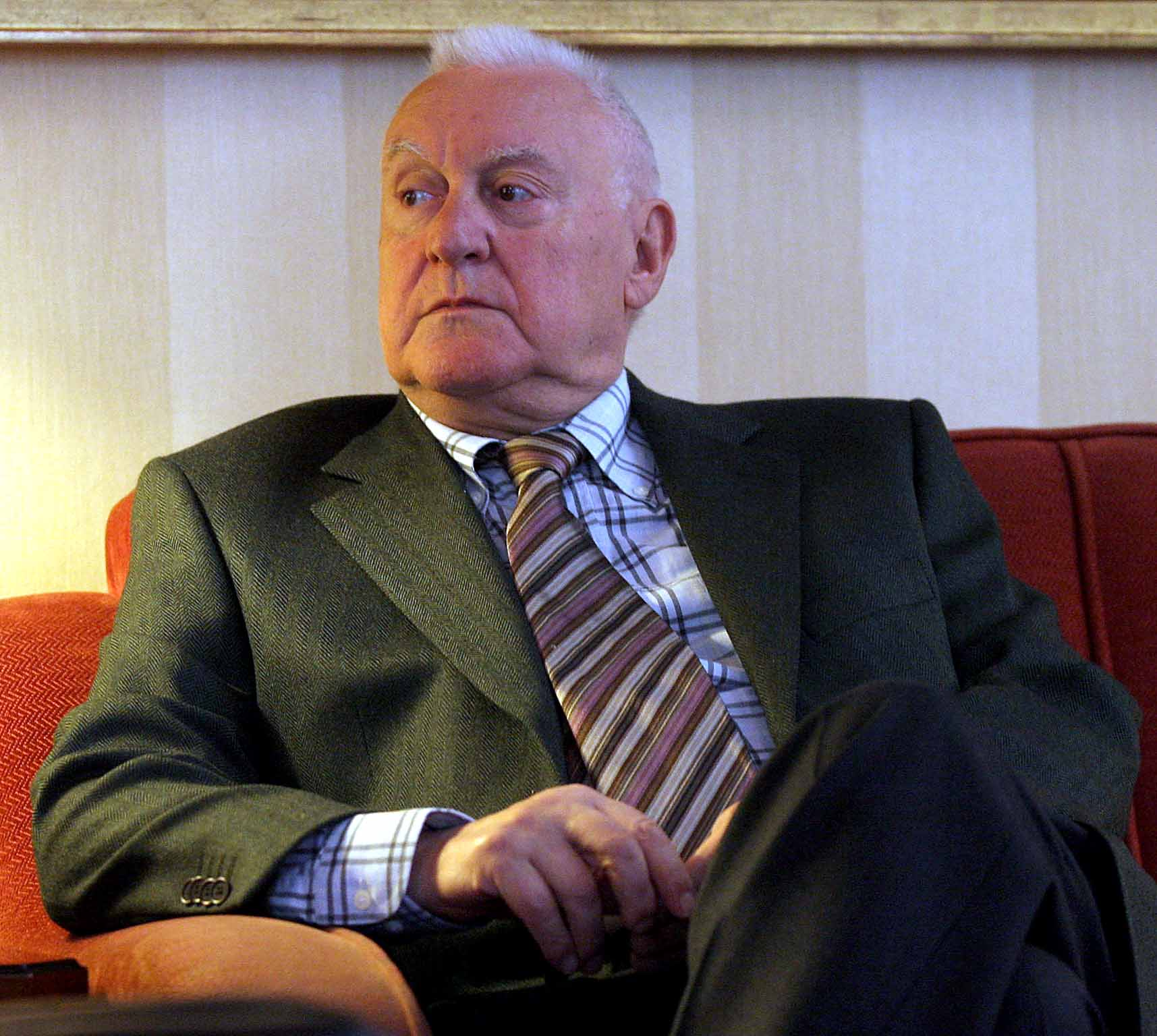 Joseph Pérez, Emeritus Professor, University of Bordeaux III Michel de Montaigne, History of Spain and Latin America.